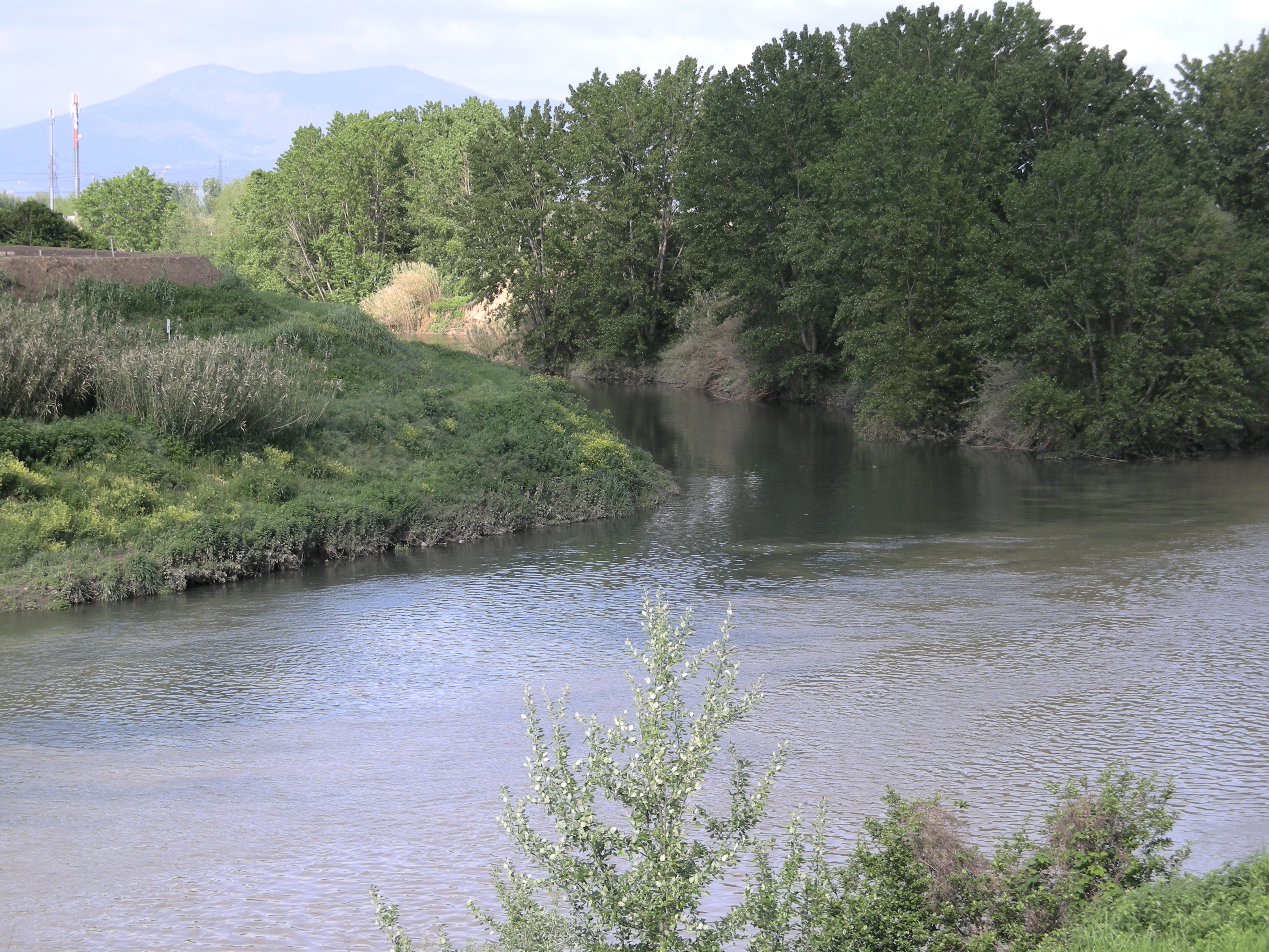 Bisenzio's mouth in Signa (Italy).